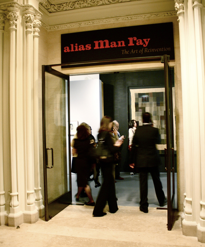 Alias Man Ray Exhibition at The Jewish Museum New York